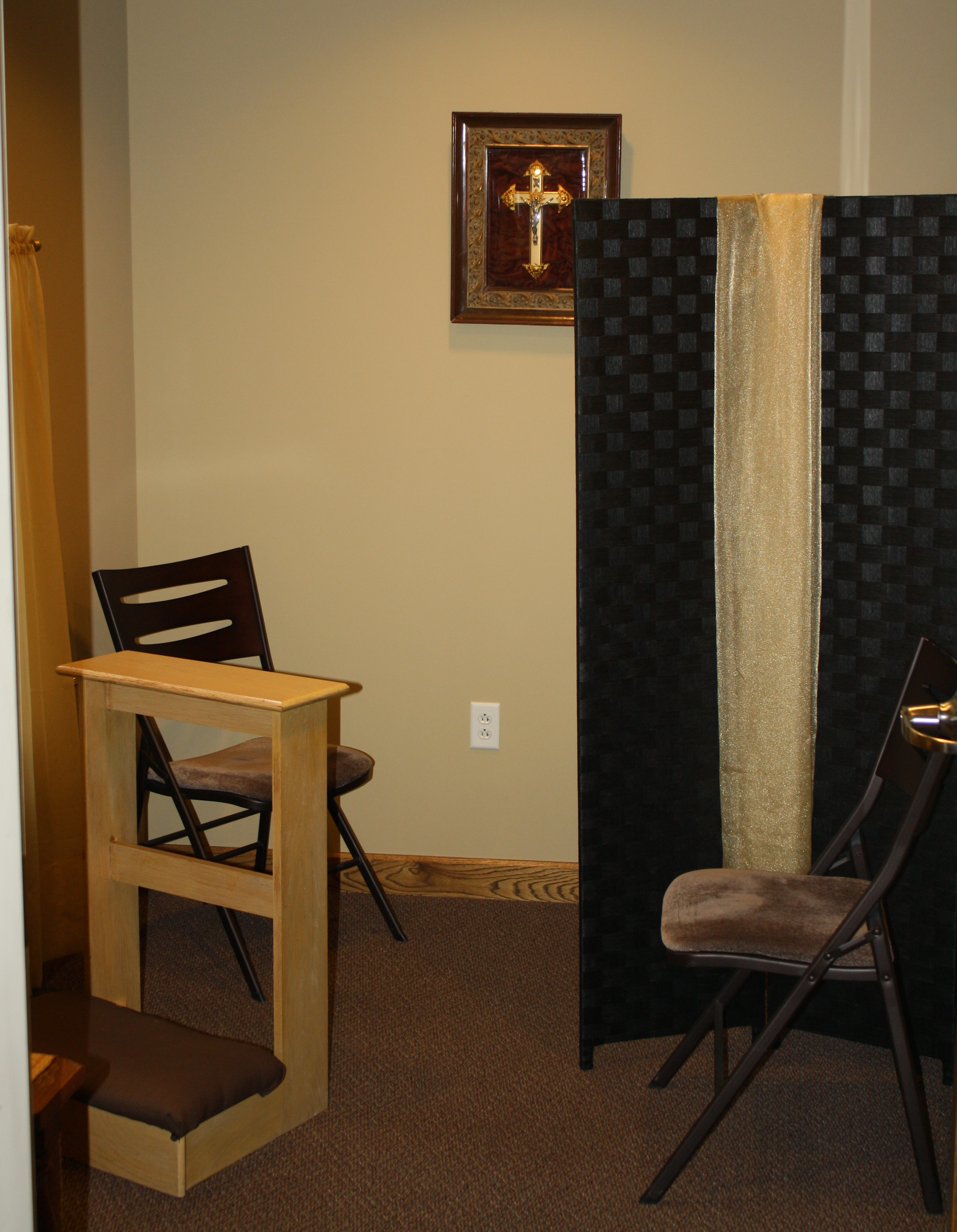 Confessional with three options for penitent, at St. Munchin Catholic church in Cameron Missouri, USA